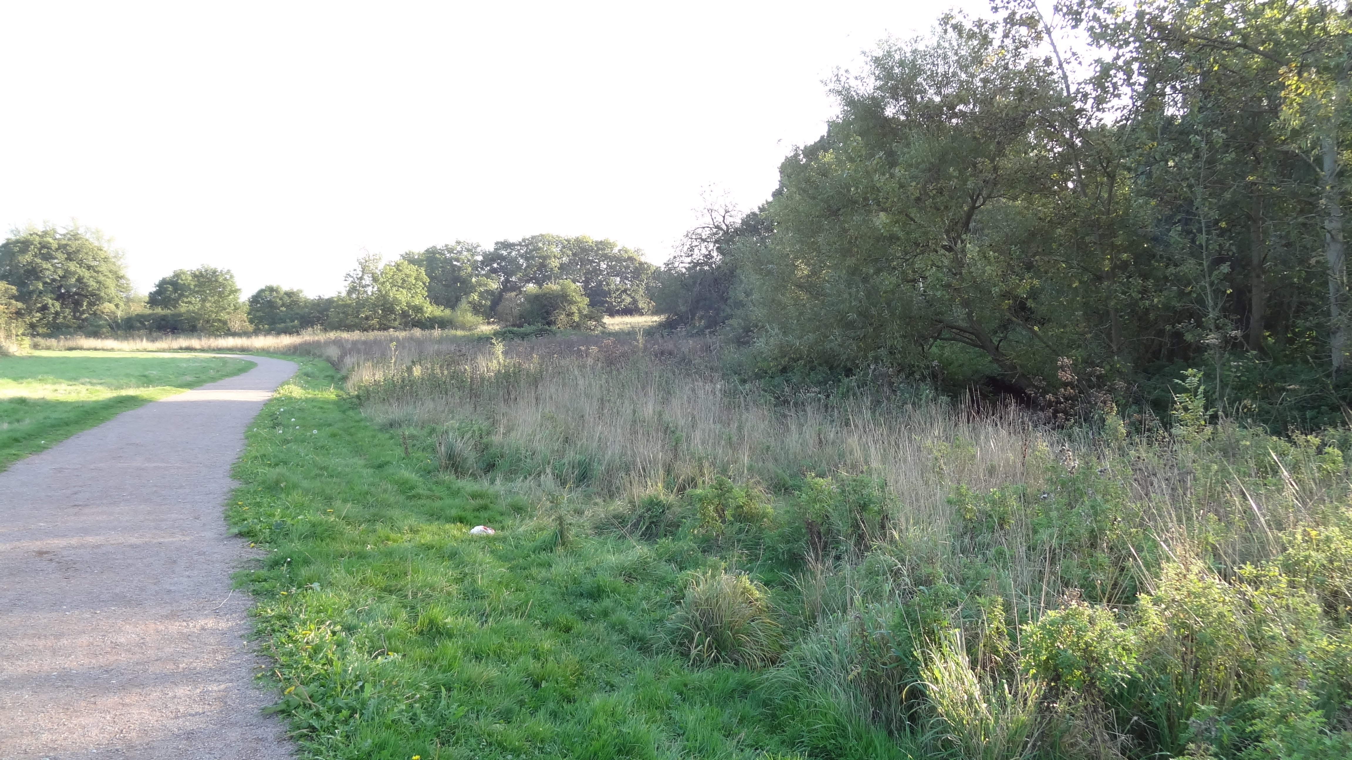 Pages Wood, a Forestry Commission Wood in the London Borough of havering